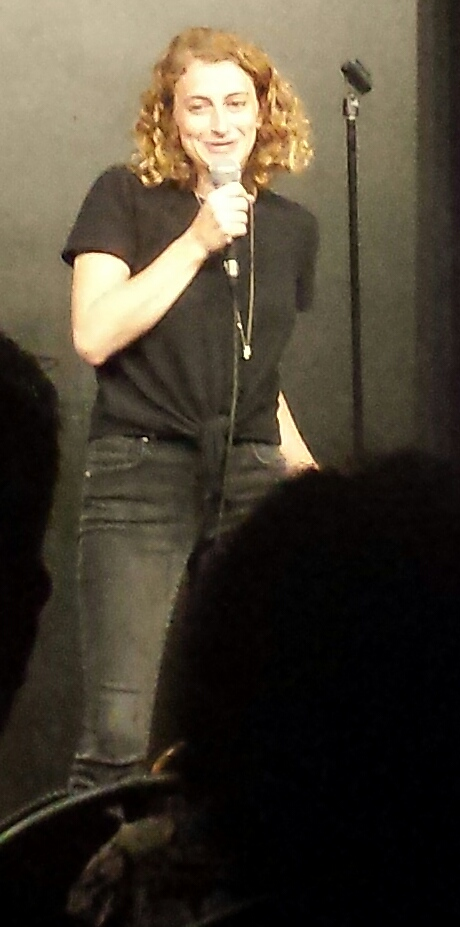 Jo Firestone photographed in Montréal, Québec, Canada at Montréal Improv.